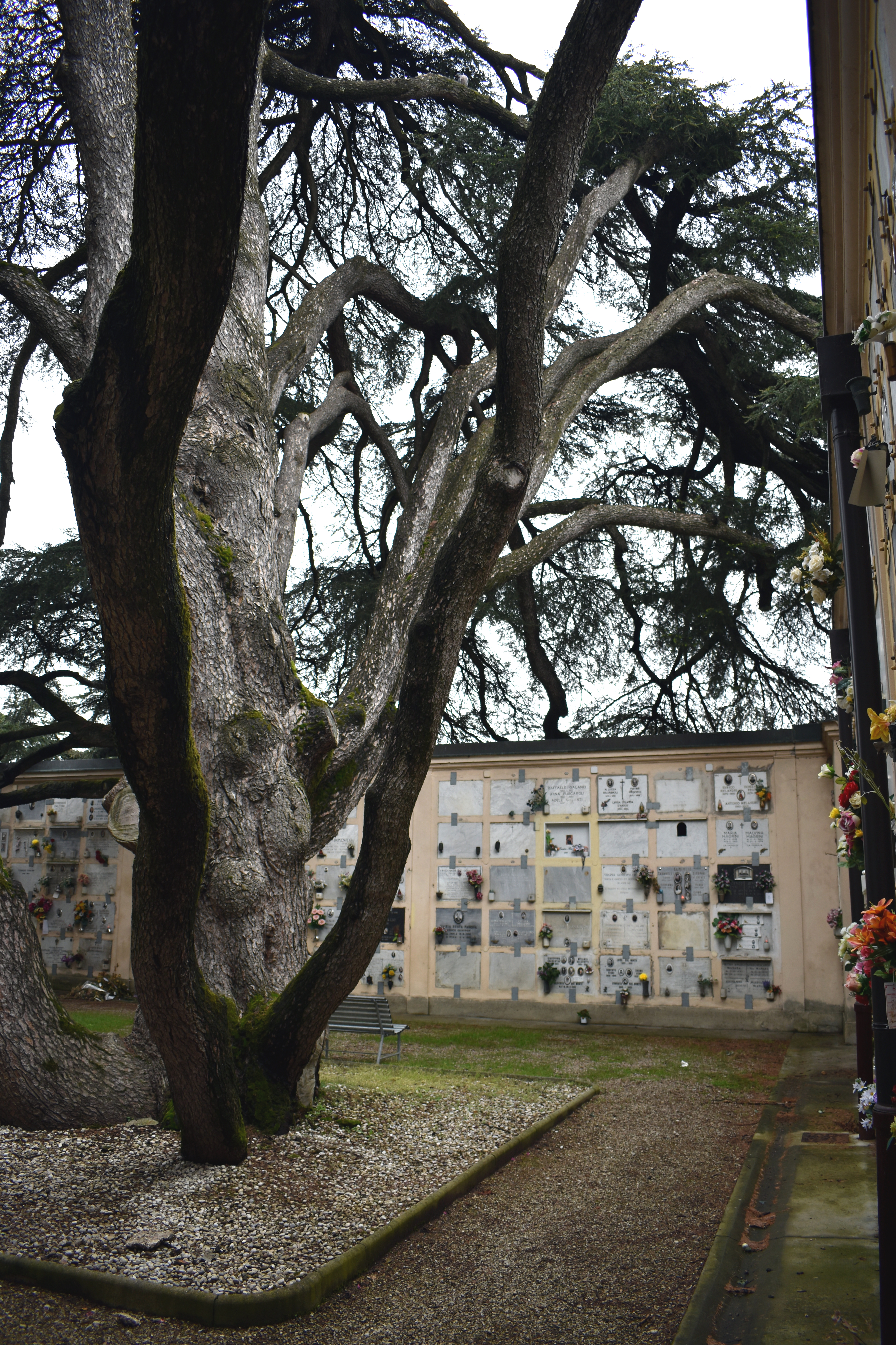 interior, Cemetery of Piratello, Imola, Italy